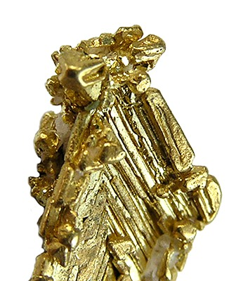 Gold Locality: Papua New Guinea (Locality at ) Size: thumbnail, 2.0 x 1.0 x 0.5 cm Gold An oustanding thumbnail of world class competition quality. This is from the collection of Bill Forrest, owner of the Benitoite Mine. He obtained this personally some 2 decades ago when buying a group of gold crystals in New Guinea. He says this was the single best piece in the lot, and i believe it! The sharp symmetry of the piece is fascinating and beautiful, and of a fine filligree that makes it stand out from any California material. It is truly one of the best gold thumbnails for this style of crystallization that I have seen. (not from the Mauthner Collection)